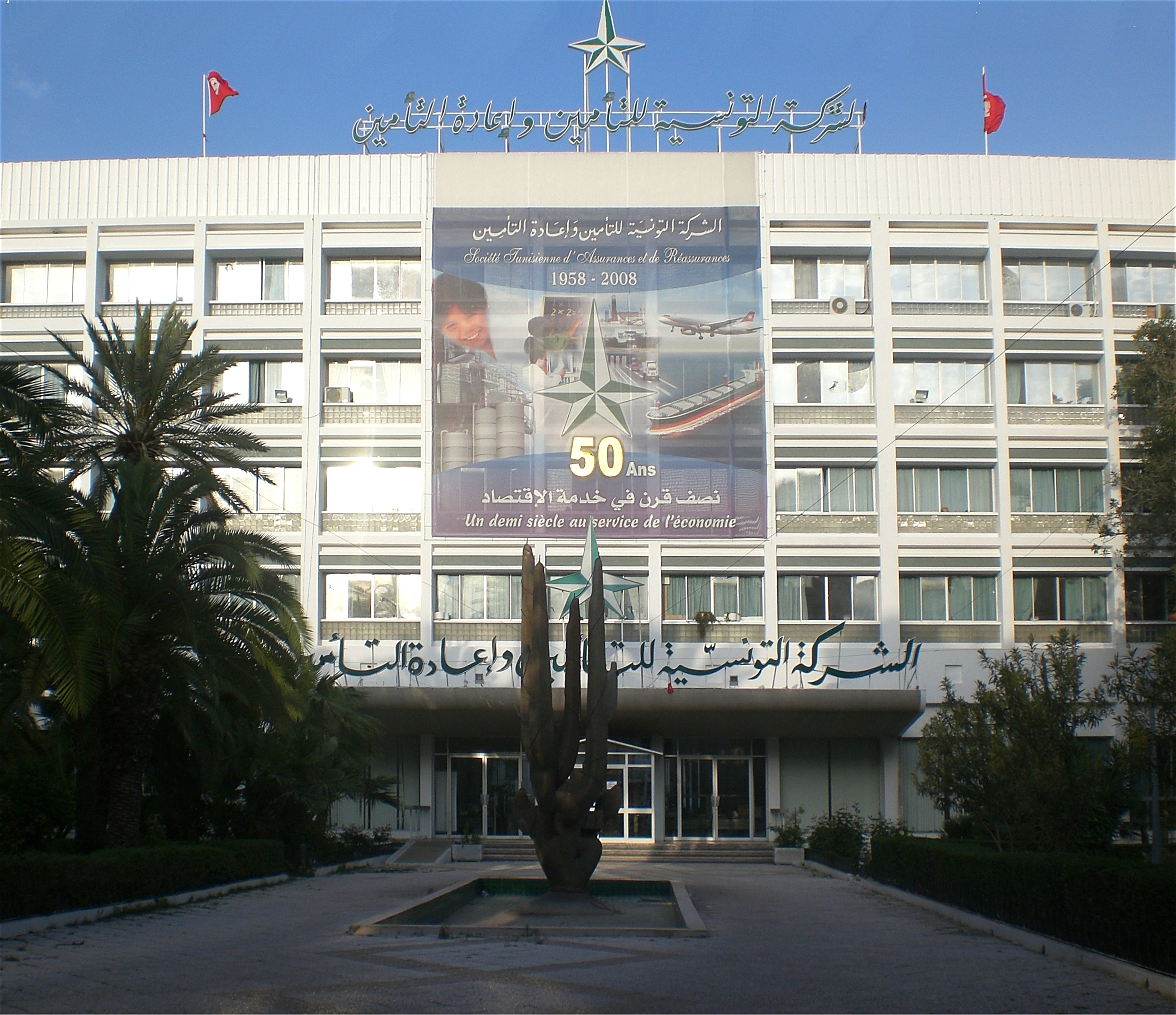 The headquaters of the Tunisian insurence called STAR